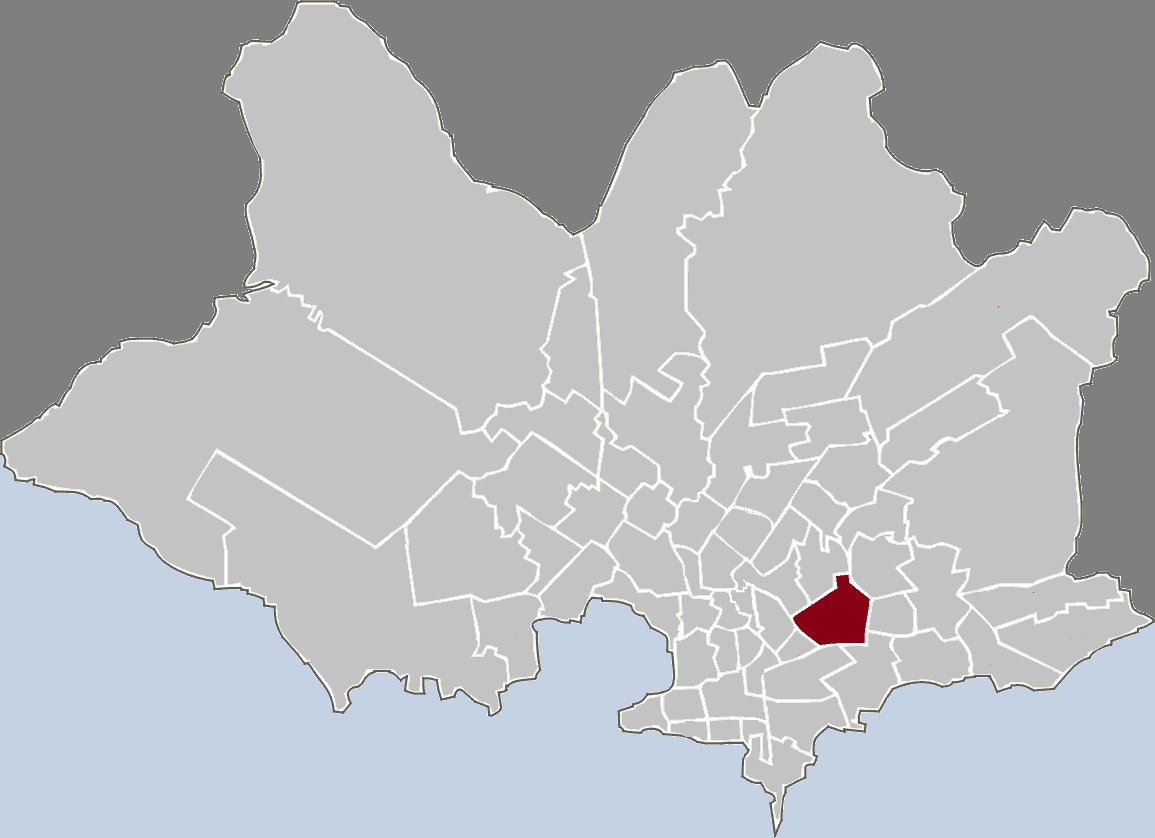 Map highlighting the given barrio in Montevideo.